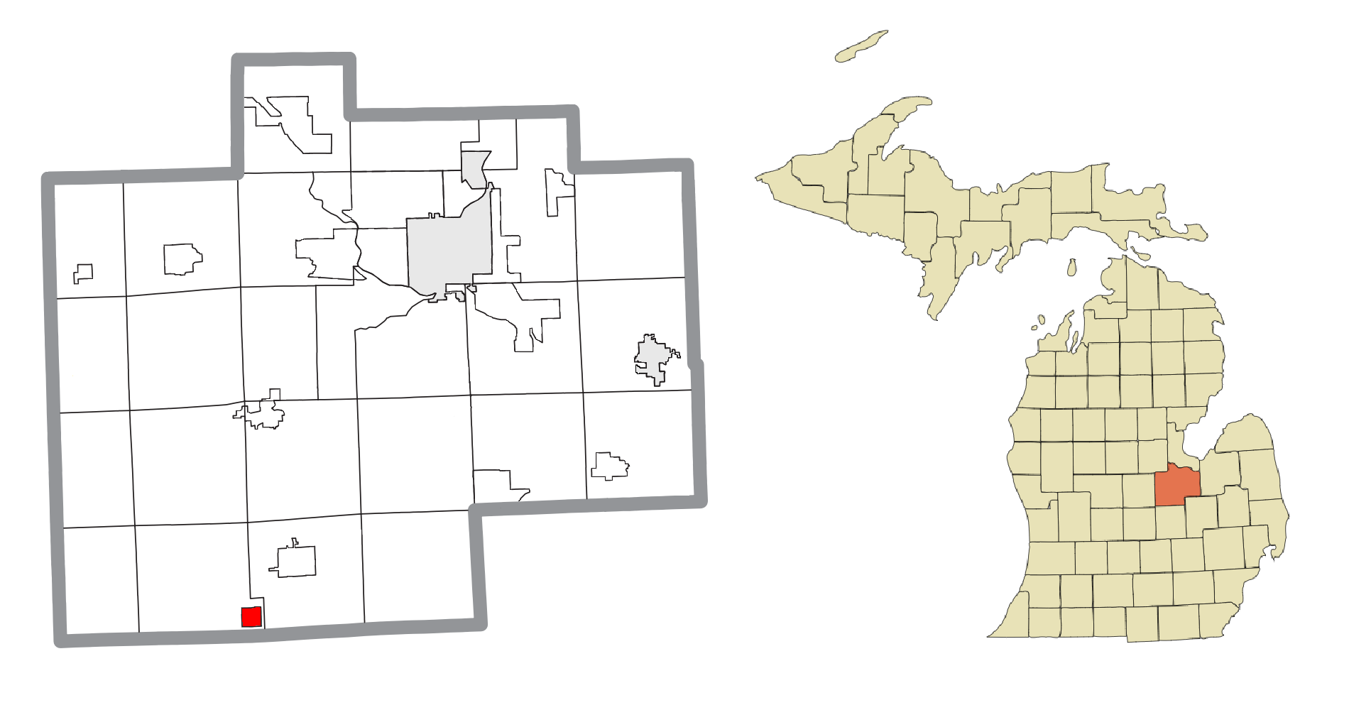 Oakley, MI